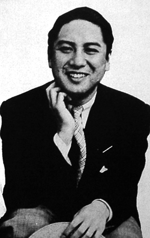 Kazuo Hasegawa (1908–84)